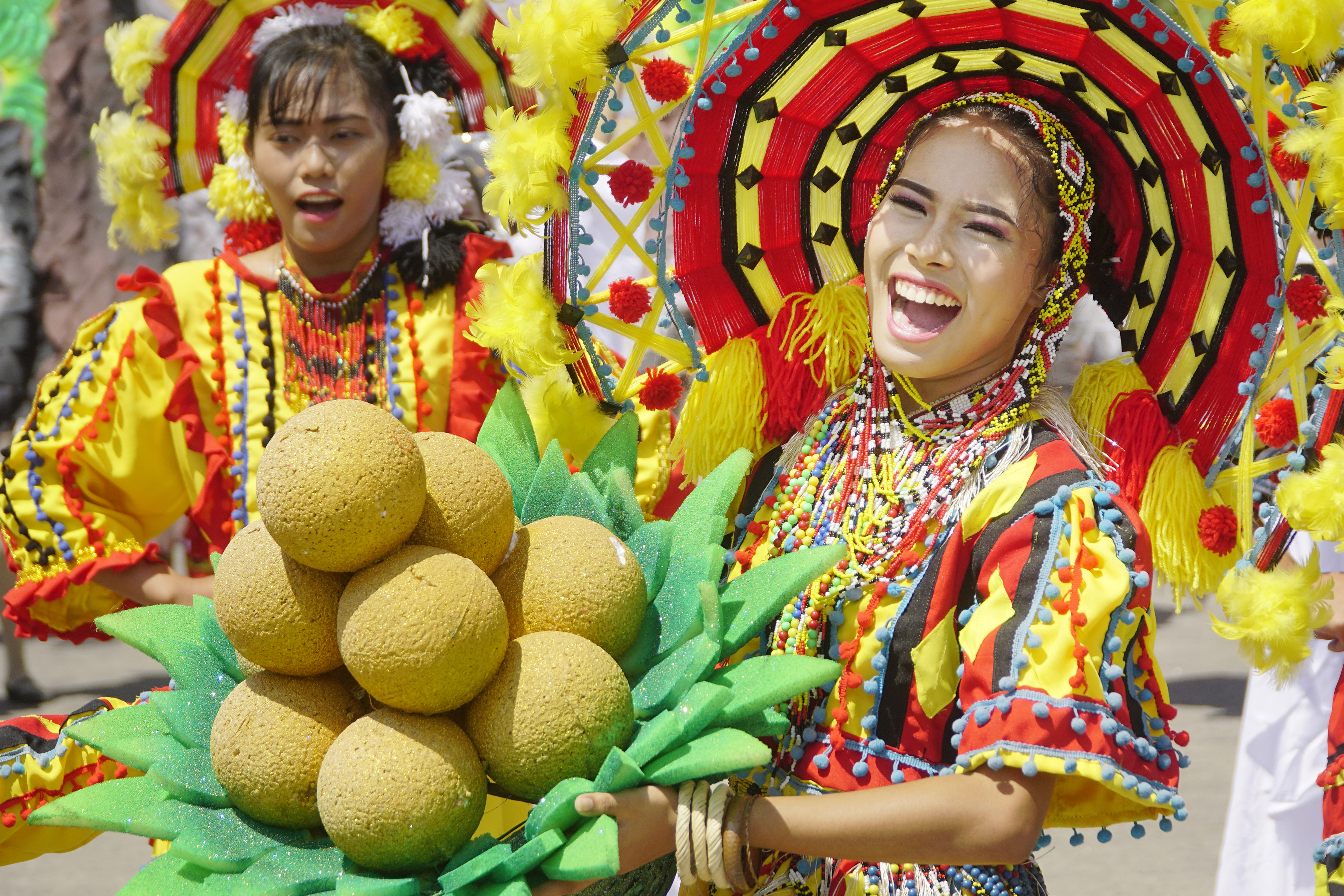 A celebration and thanksgiving for the harvest of the Lanzones fruit in the island of Camiguin, Philippines. This photo has been taken in the country: Philippines